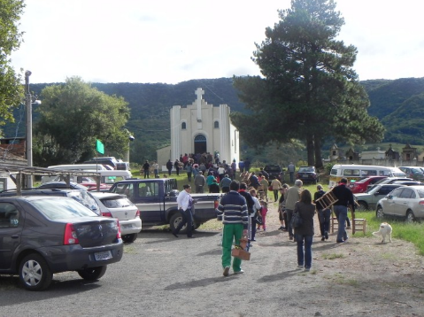 Santa Terezinha Church. In neighborhood Palma. Santa Maria City. Rio Grande do Sul State. Brazil